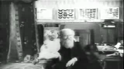 Liliya Belgii (1915) Shorth movie made in stop motion and live action direct by Ladislas Starevich (Władysław Starewicz)in this screenshot Irene Starewicz (as Irina Starewicz) and Jan Wichniekski